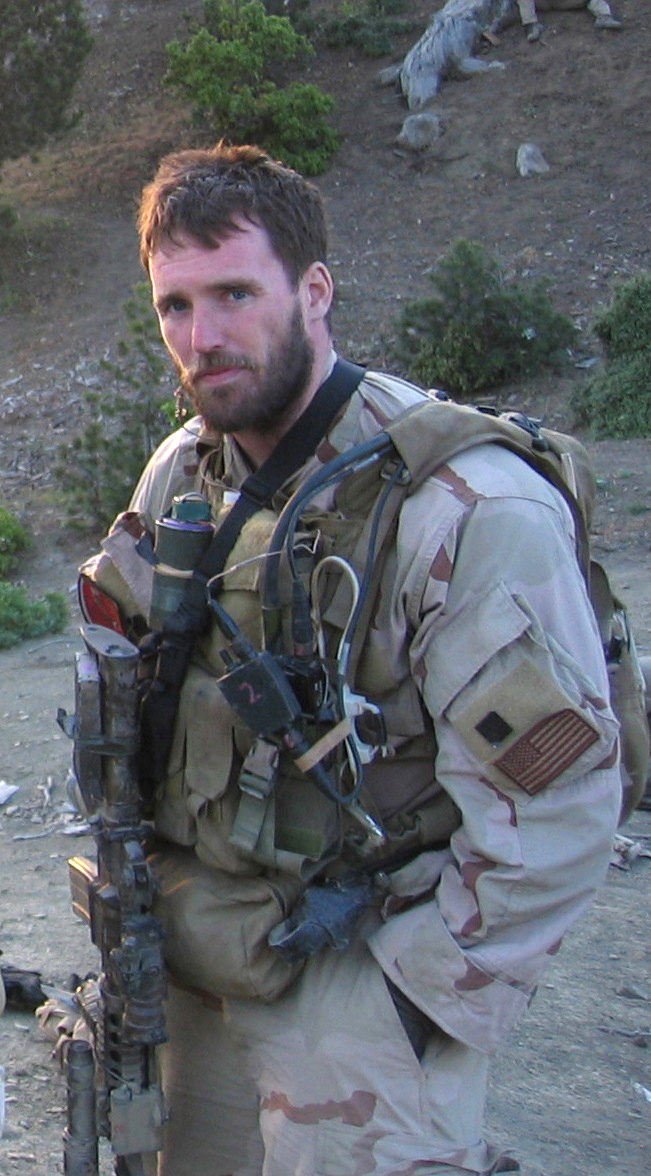 Navy SEAL Lieutenant Michael P. Murphy, killed in action on 28 June 2005